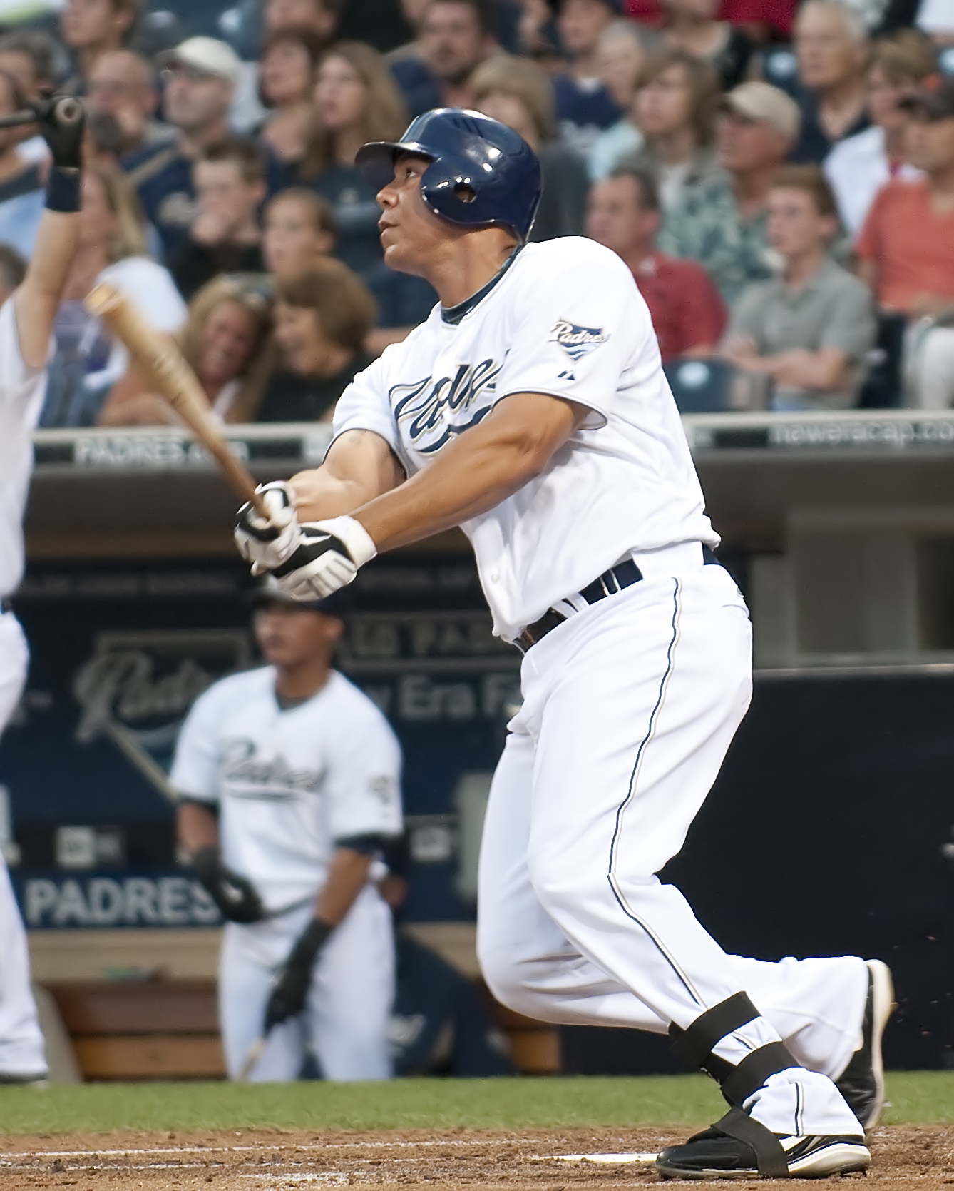 Kyle Blanks of the San Diego Padres hits his 6th home run